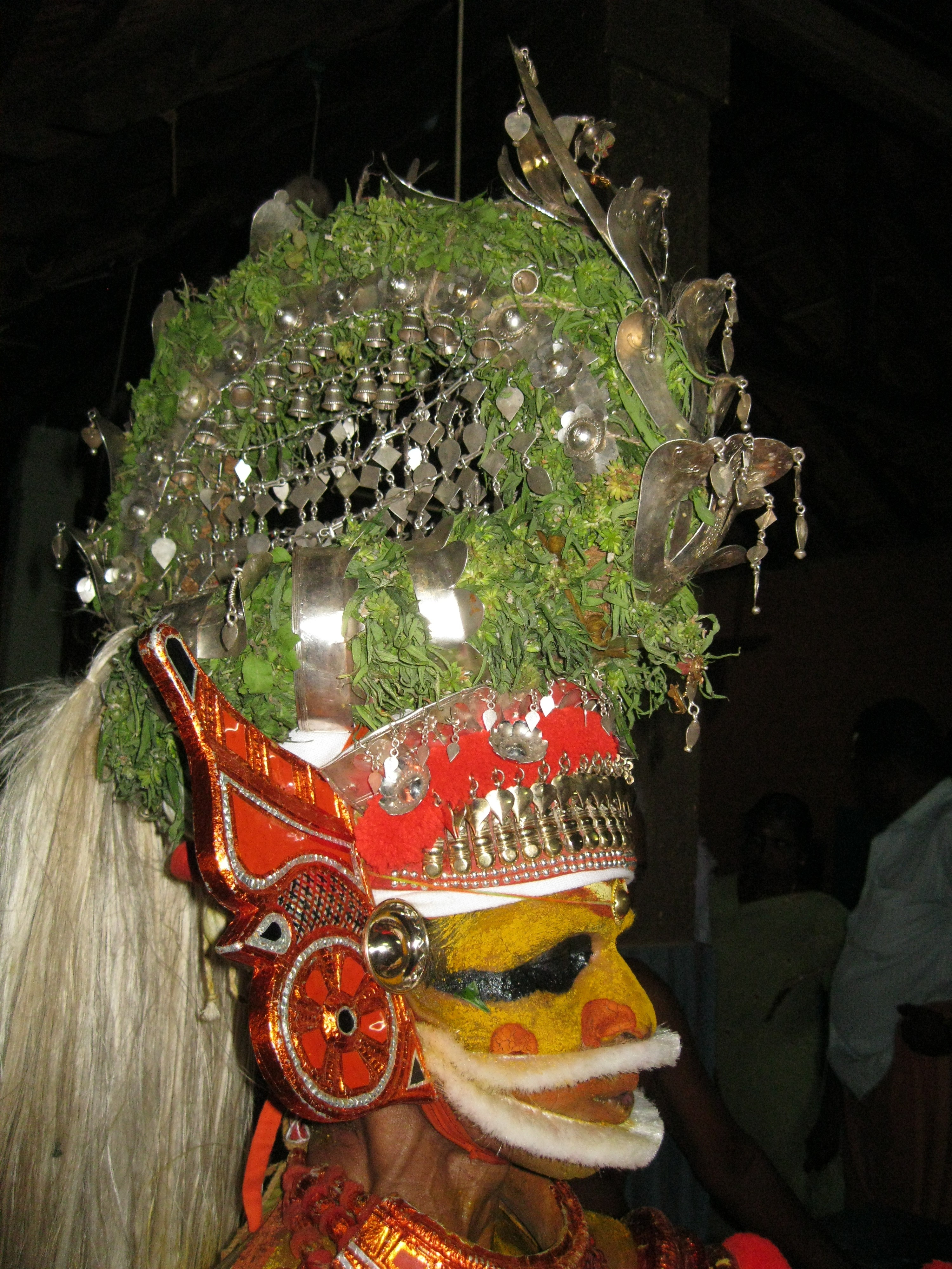 muthappan vellaattam kunnathur padi, kerala, kannur